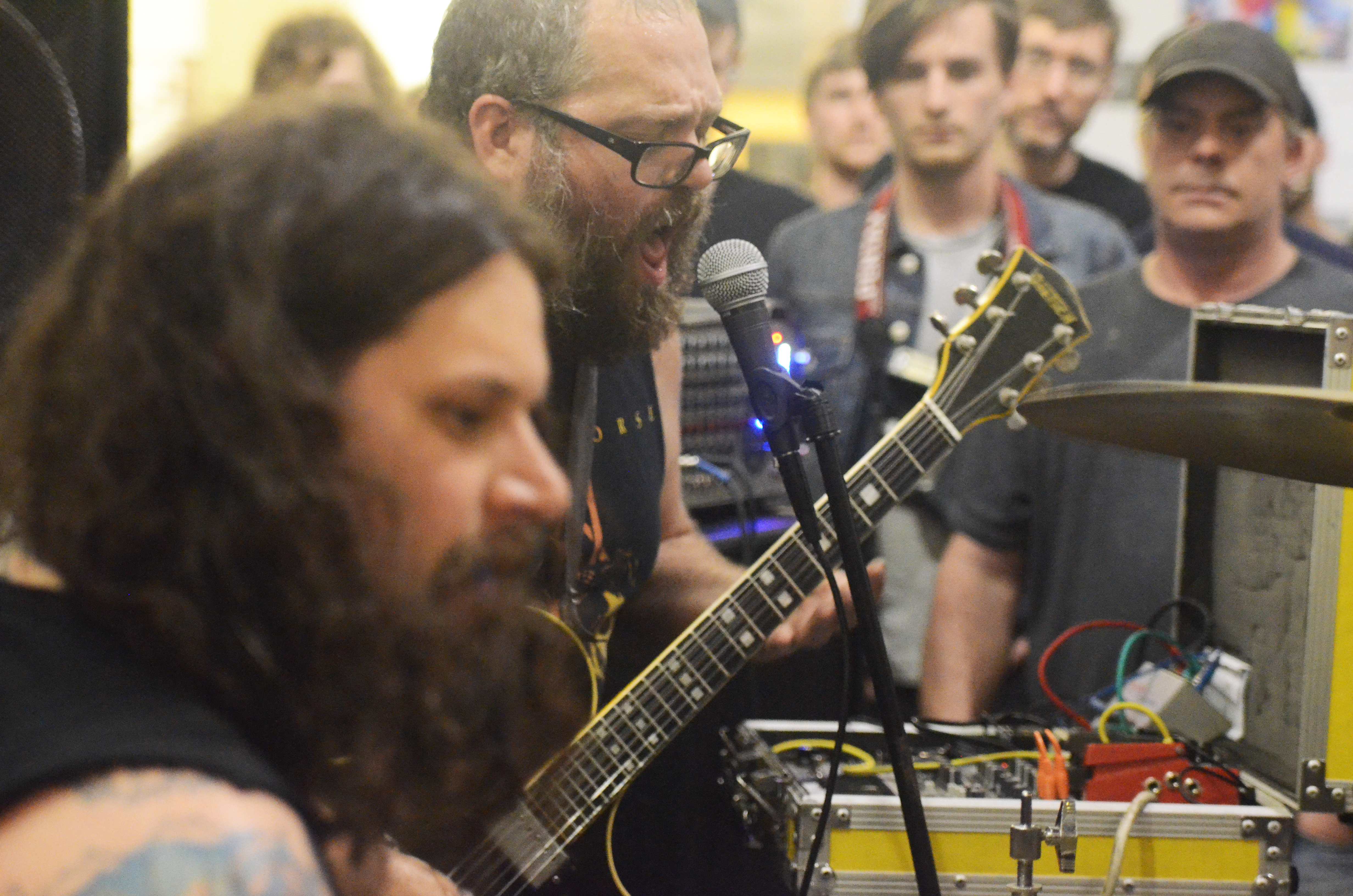 Live in Greensboro, NC @ Gatewood Studio Arts Building UNC-G